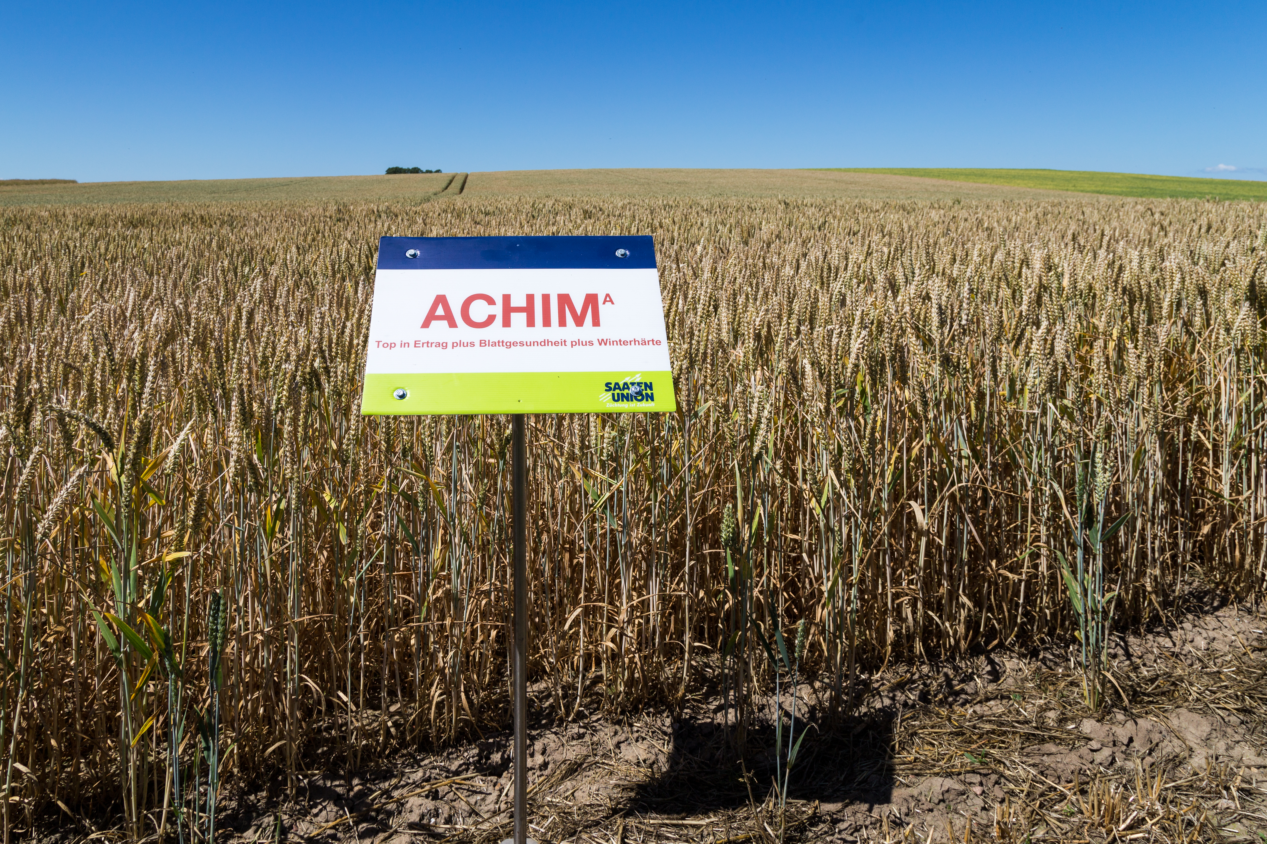 Seed production on Poel Island (Baltic Sea, Germany)